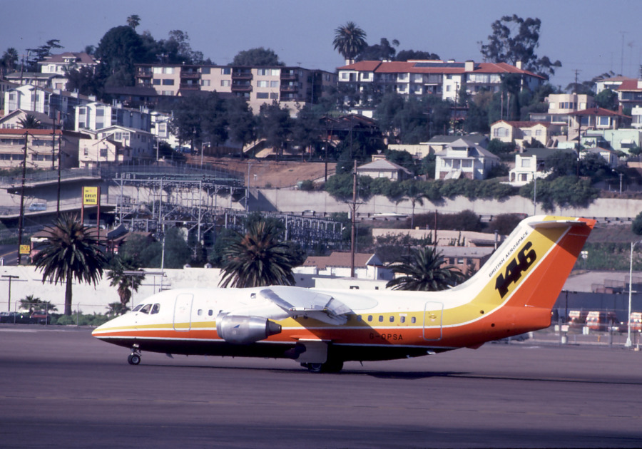 Pictionid72649227 - catalogbritish aerospace g-opsa on training flight san 5-27-84.tif - titlebritish aerospace g-opsa on training flight san 5-27-84 - filenamebritish aerospace g-opsa on training flight san 5-27-84.tif-Image scanned from a 35mm Slide--Please tag this photo so that the data can be stored with our Digital Asset Management System. -Repository: San Diego Air and Space Museum Archive